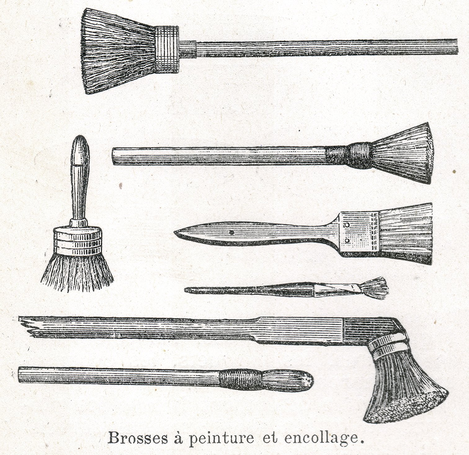 Brush. Picture from "Dictionnaire encyclopédique de l'épicerie et des industries annexes" par Albert Seigneurie, édité par "L'Épicier" en 1904, page 122.